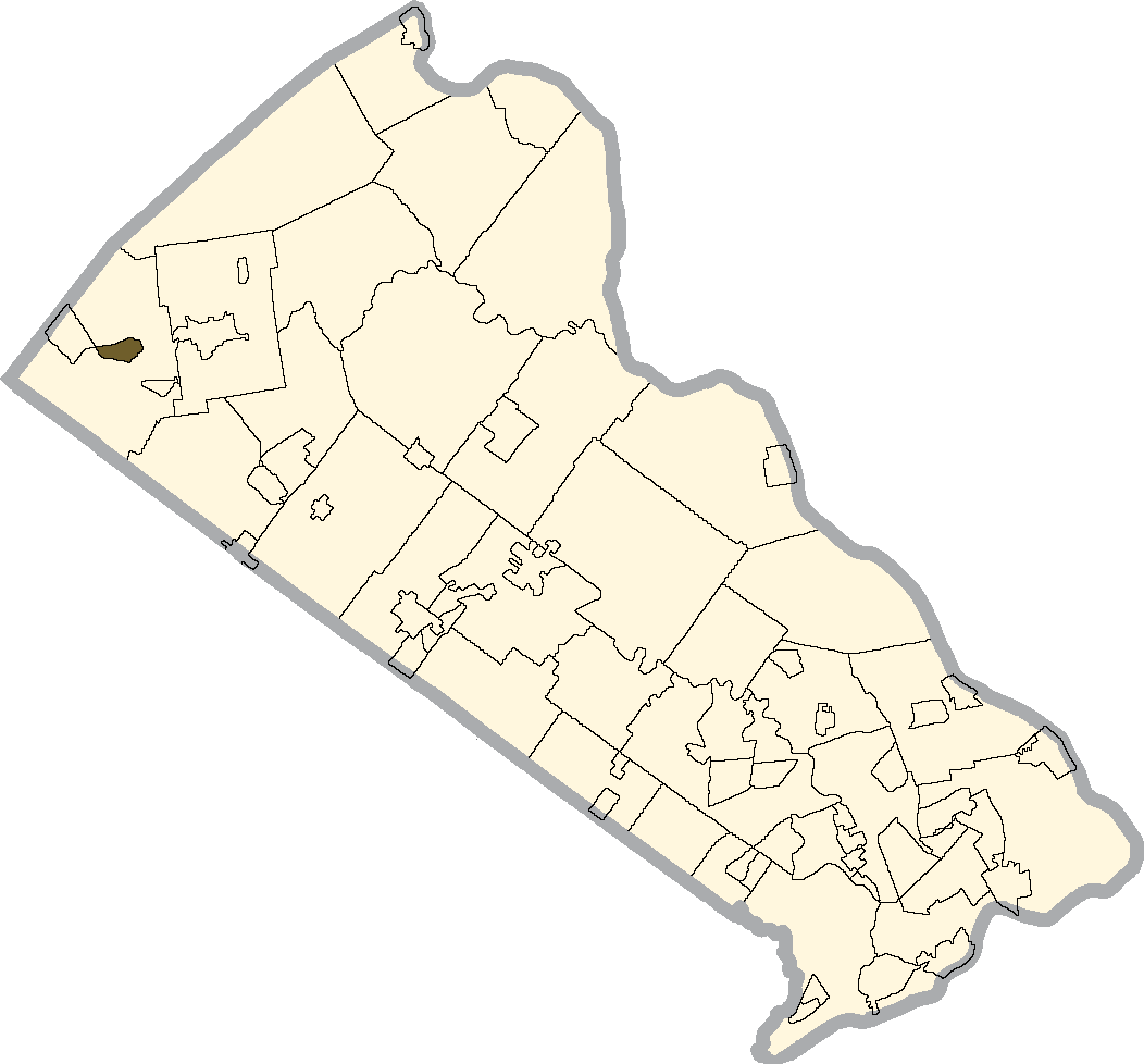 Milford Square shaded on the map of Bucks county, PA.